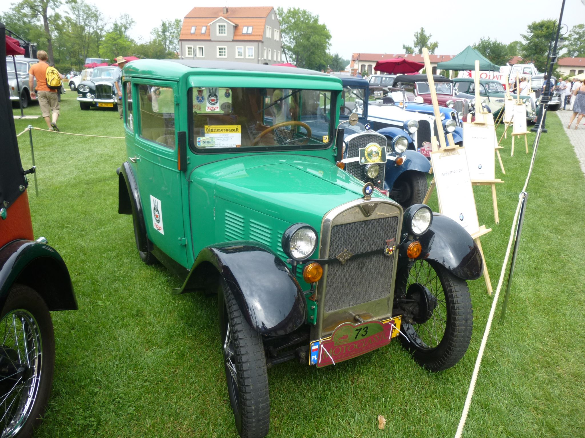 1928 BMW-Dixi 3/15 HP DA2 at 2015 Motoclassic Wrocław